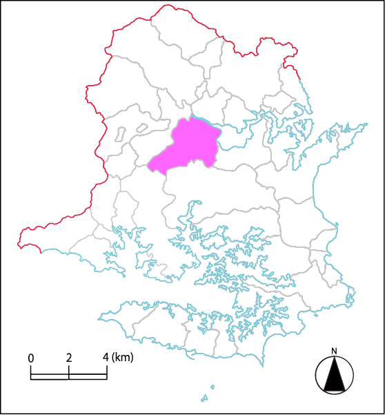 This is the map of Isobecho-Anagawa, Shima, Mie, Japan.